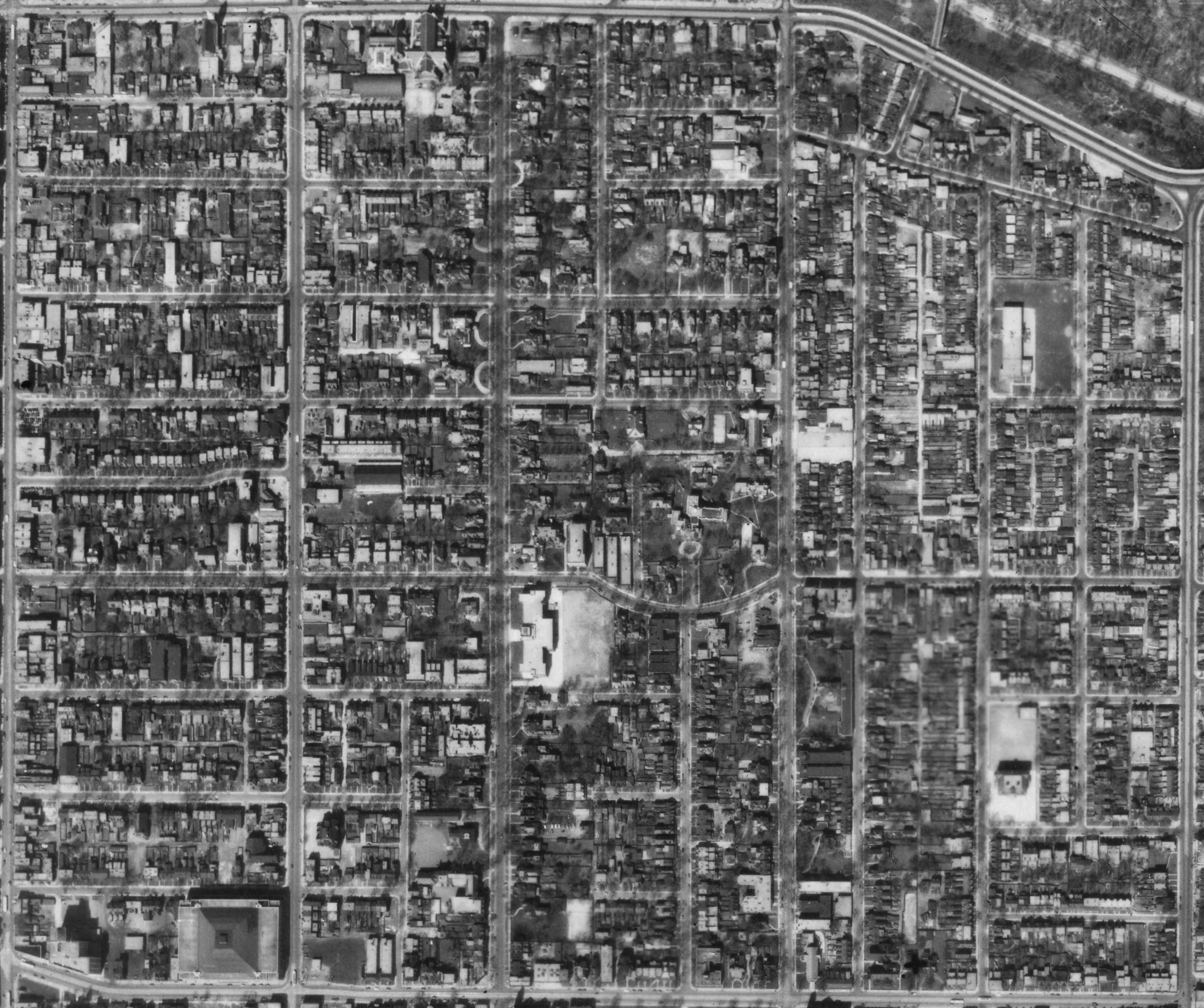 Aerial Photograph of Toronto's former 'St. James Ward' (St. Jamestown) including Wellesley Crescent & the Homewood Estate